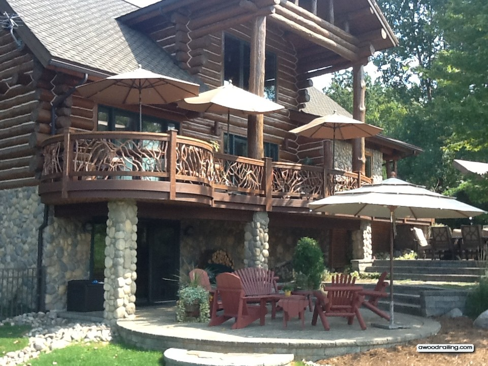 Mountain Laurel Handrails are curved to match the arc of this circular deck on a gorgeous log home.